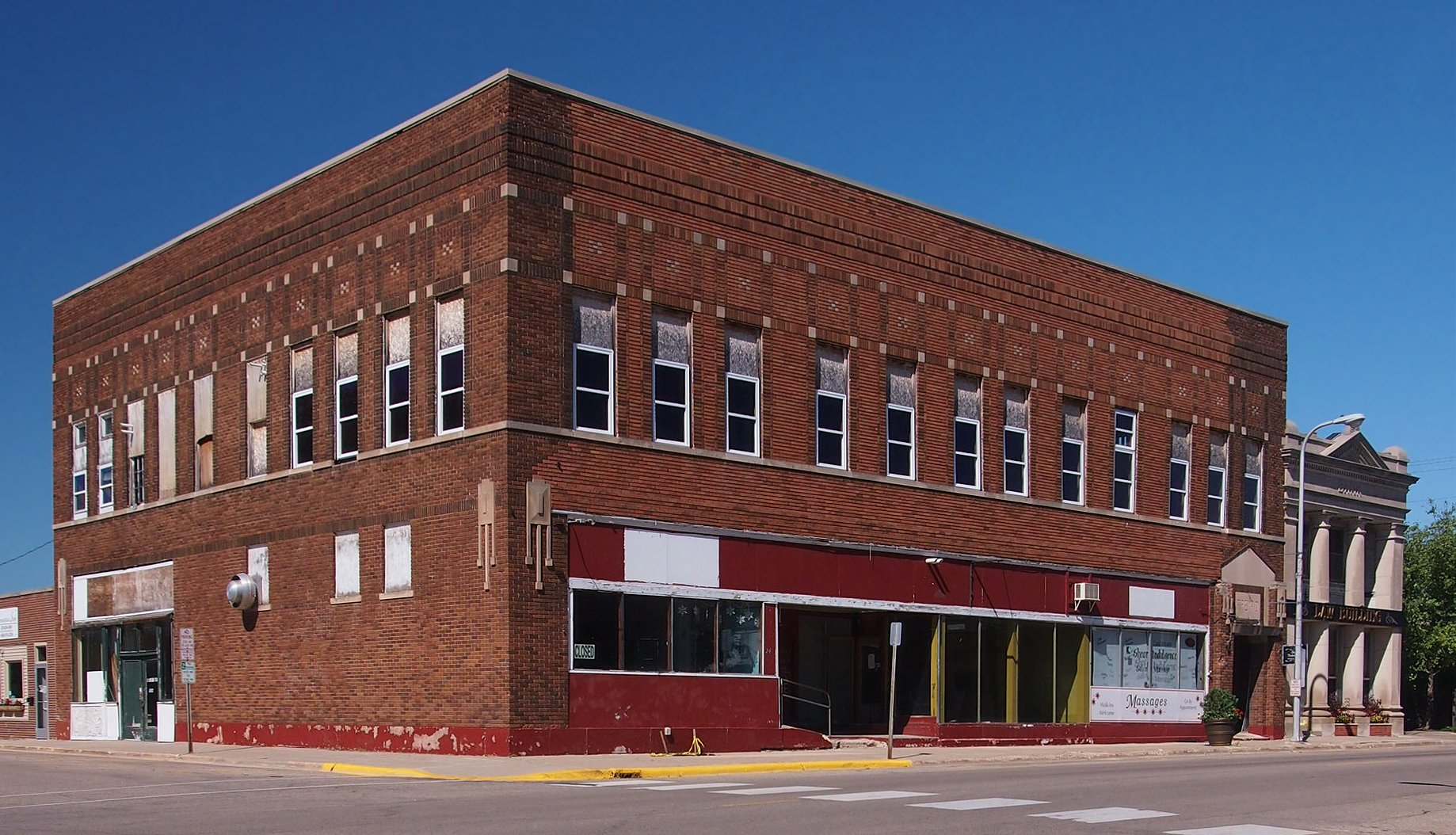 Fremad Association Building (built 1919) and Pope County State Bank Building (built 1908), 2–22 S Franklin Ave, Glenwood, Minnesota, USA. Viewed from the southeast.